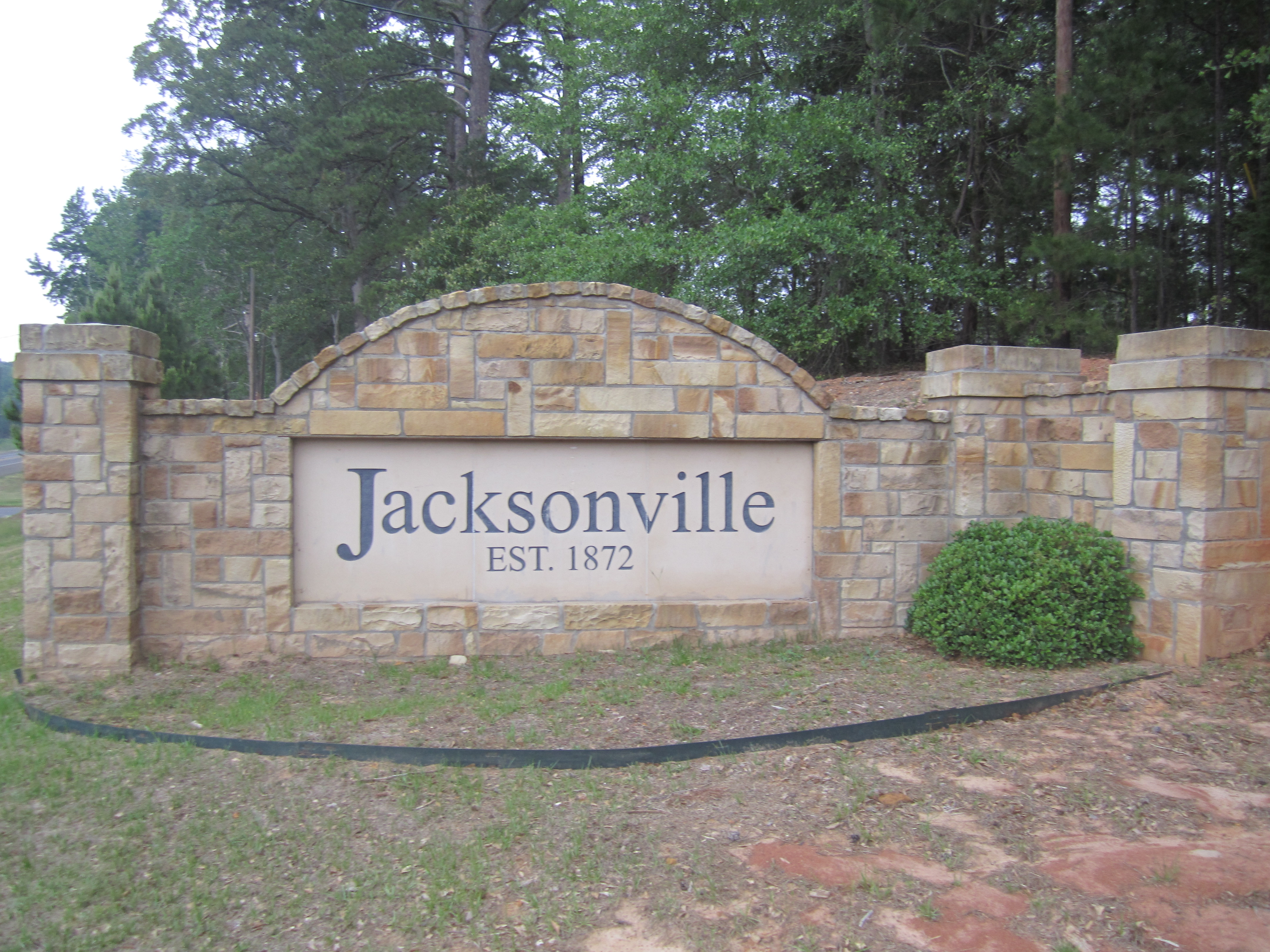 I took photo with Canon camera in Jacksonville, TX.